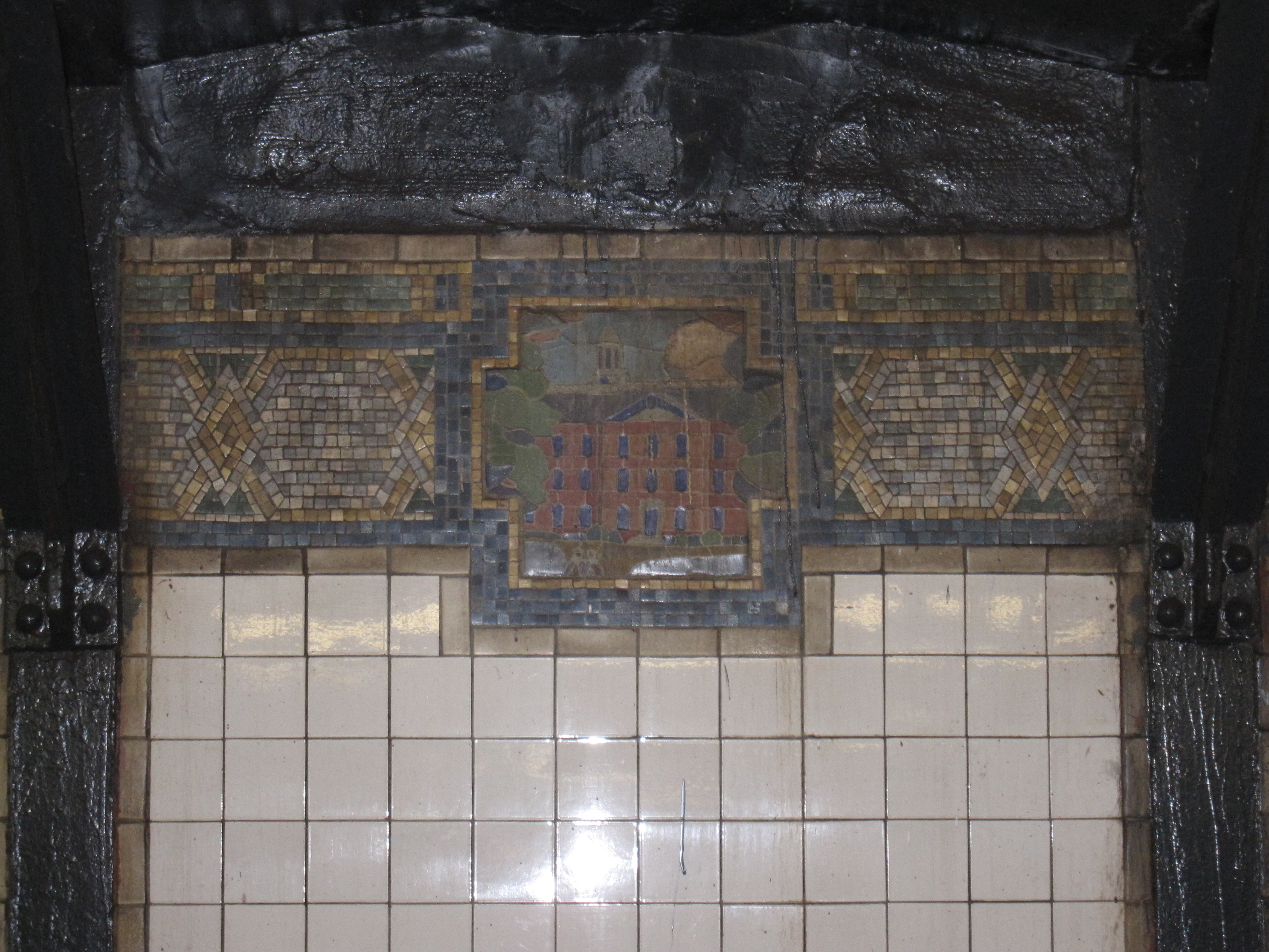 Chambers Street (IRT Broadway – Seventh Avenue Line)